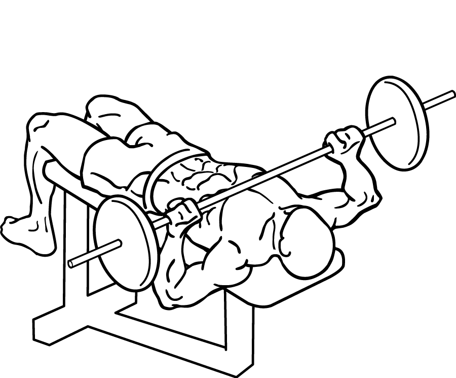 an exercise of chest